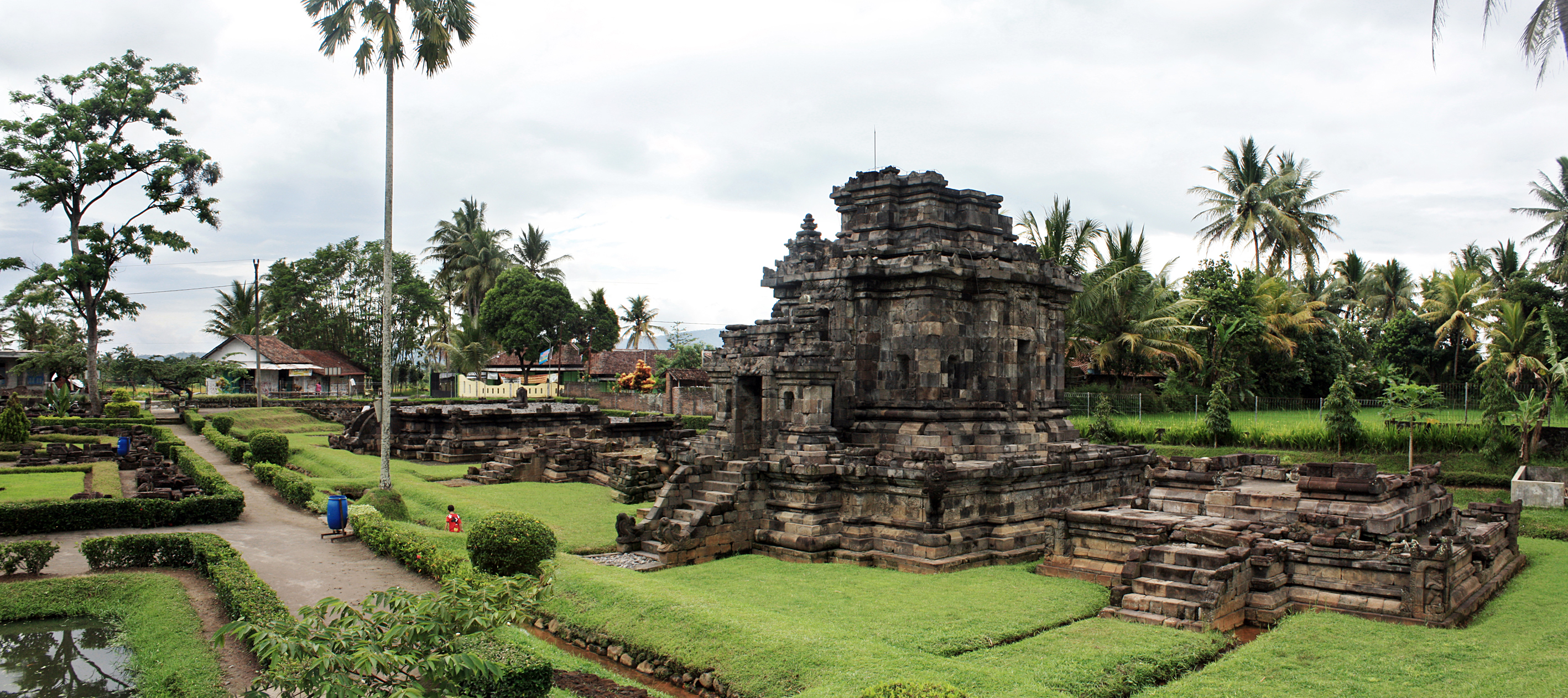 Ngawen temple (Indonesian: Candi Ngawen), view from northeast, an 8th-century Buddhist temple located in Ngawen village, 5 kilometers south from Muntilan town, Magelang Regency, Central Java, Indonesia. The temple was built by Sailendra dynasty and linked to Mendut, Pawon, and Borobudur. Ngawen temple is located around 6 kilometers east from Mendut temple.